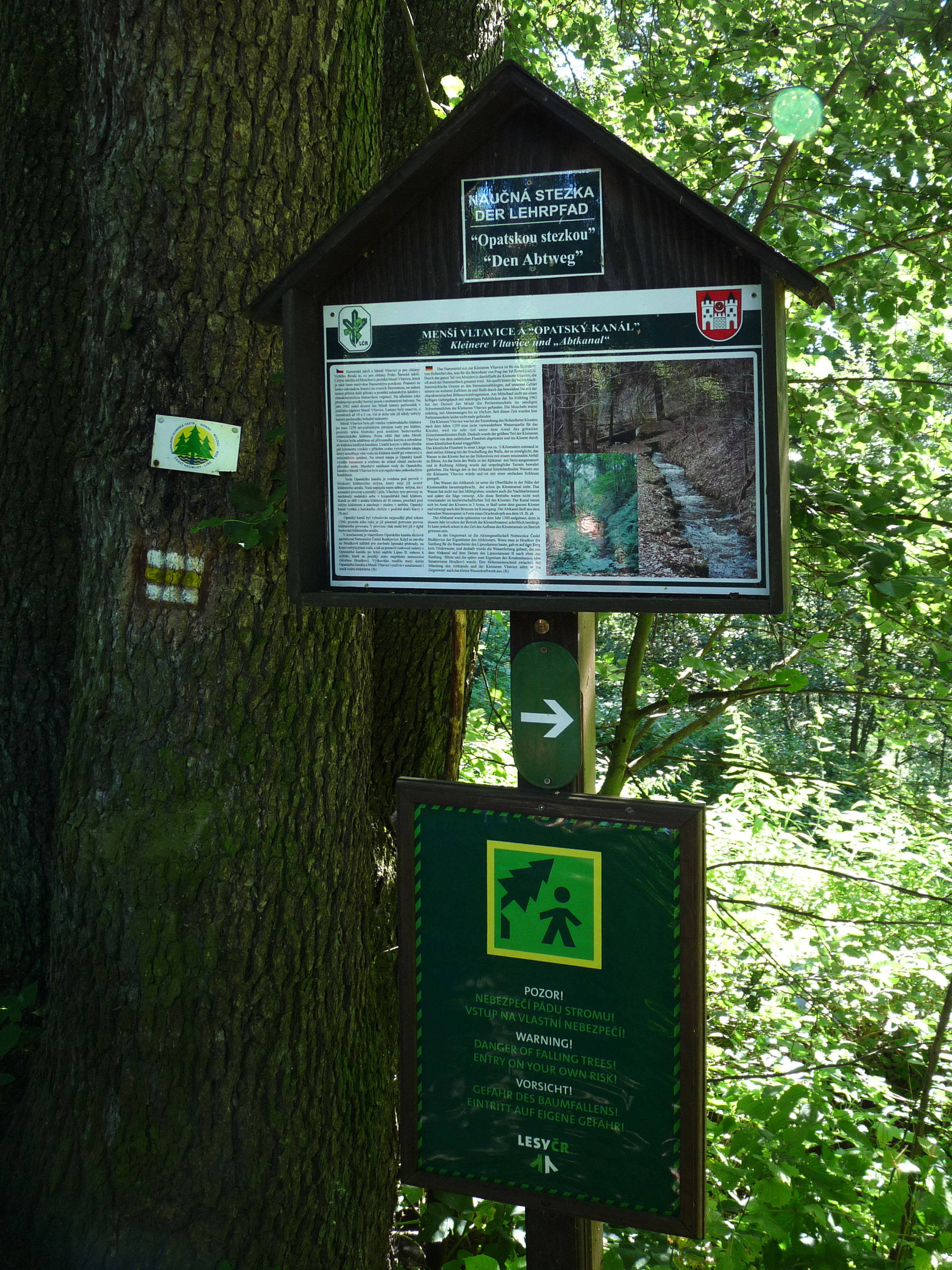 Information board of the educational trail Opatská stezka (Abbot Trail) along the Menší Vltavice River in Vyšší Brod, Český Krumlov District, Czech Republic.